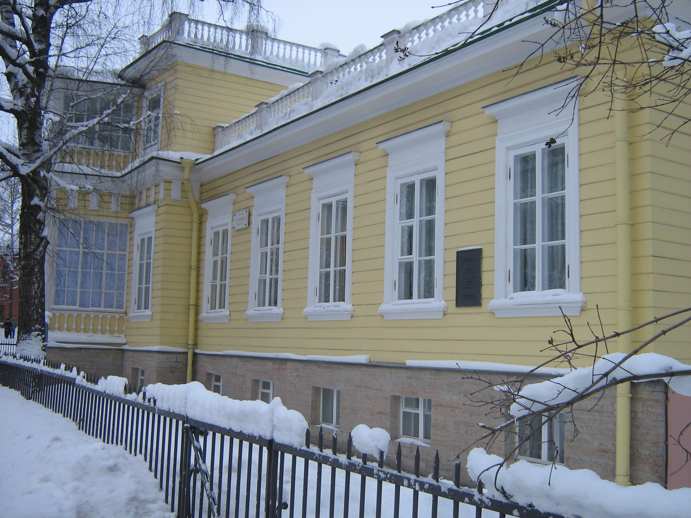 Saint Petersburg (Russia), town Pushkin.